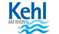 Stadt Kehl, Logo